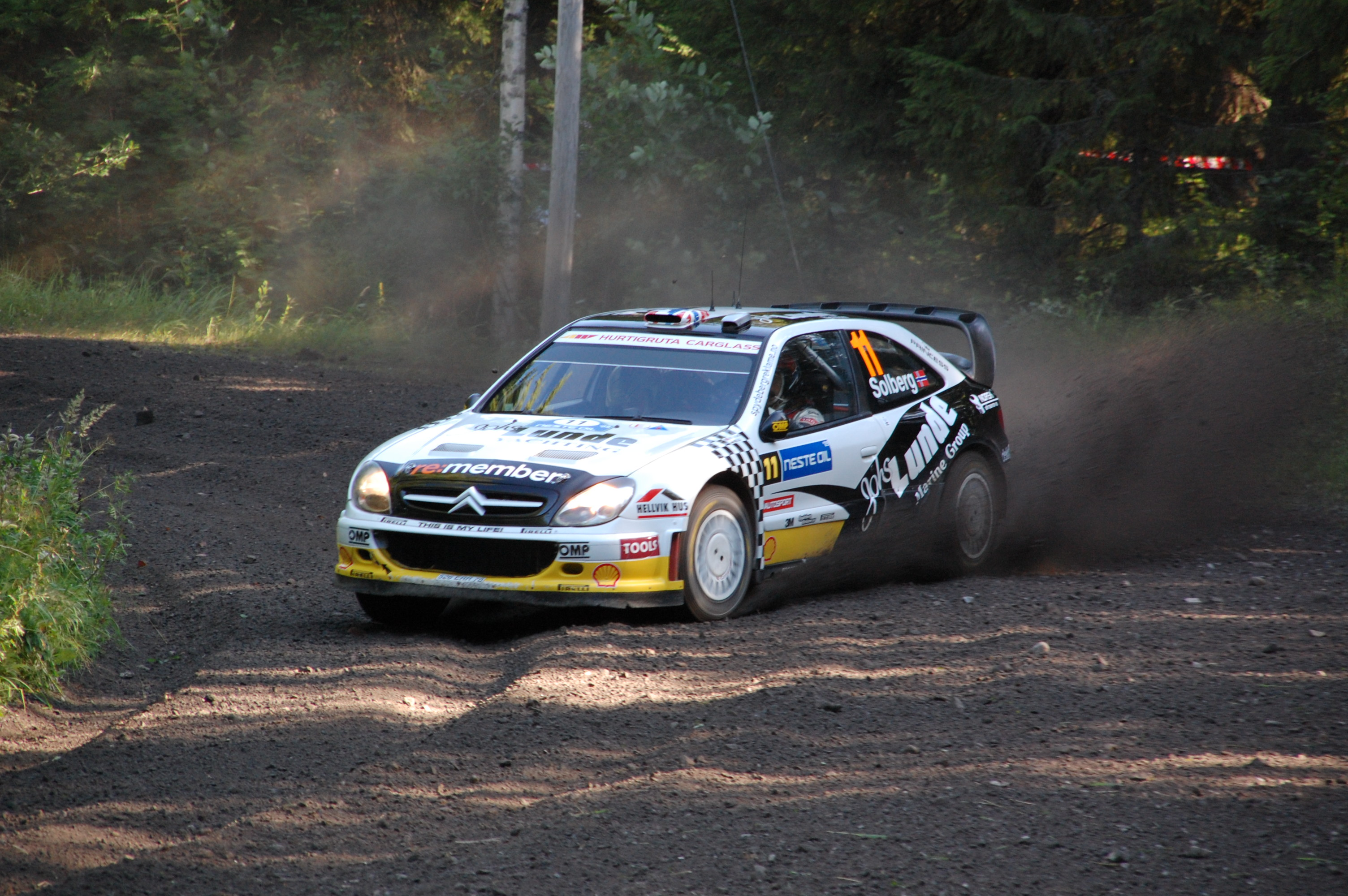 Petter Solberg - 2009 Rally Finland. More pictures on my website